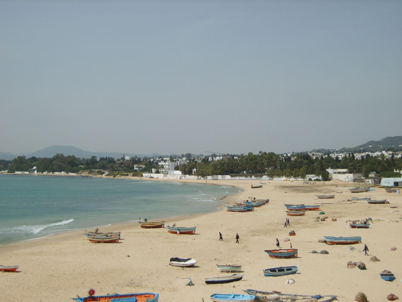 Hammamet main beach, Tunisia.